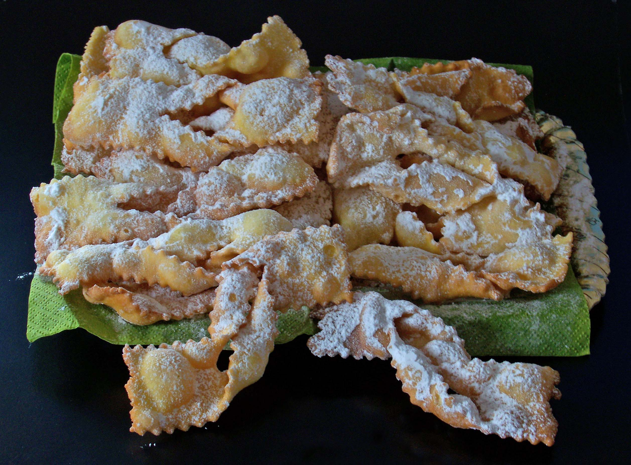 Italian carnival sweets, with powdered sugar, known as scorpelle, bugie, cenci, chiacchiere, cròstoli, galani, lasagne, lattughe, pampuglie, rosoni sfrappole or frappe. Own photo.